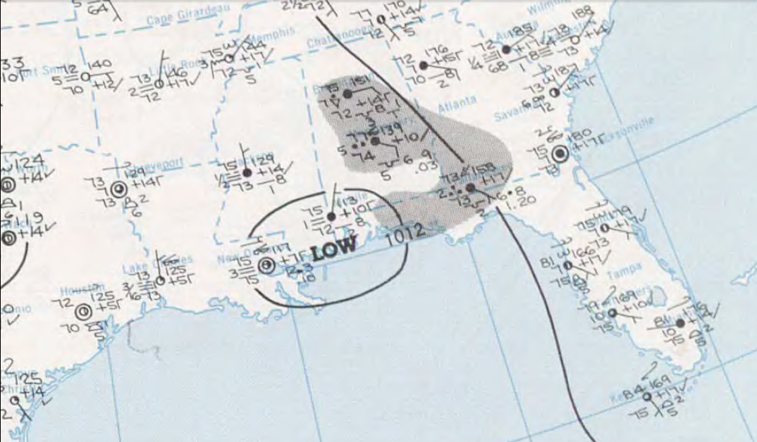 Surface weather analysis map of Tropical Depression Six on July 29, 1975.